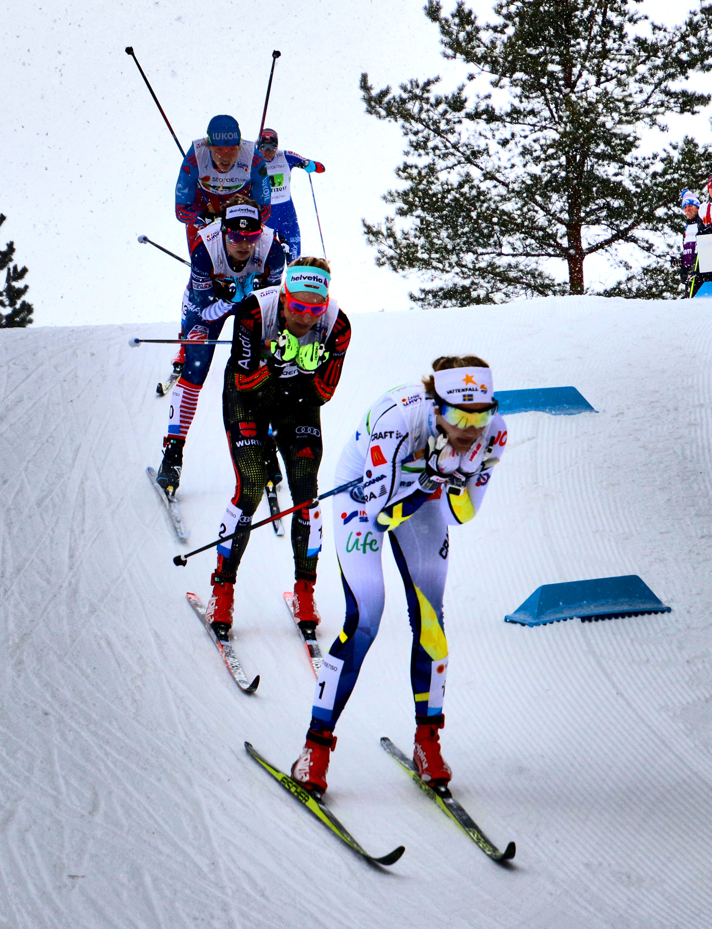 Lahti. At the cross-country skiing world championships.